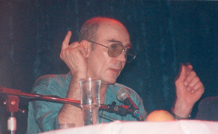 Hunter S. Thompson, Long Beach, California, May 1989.